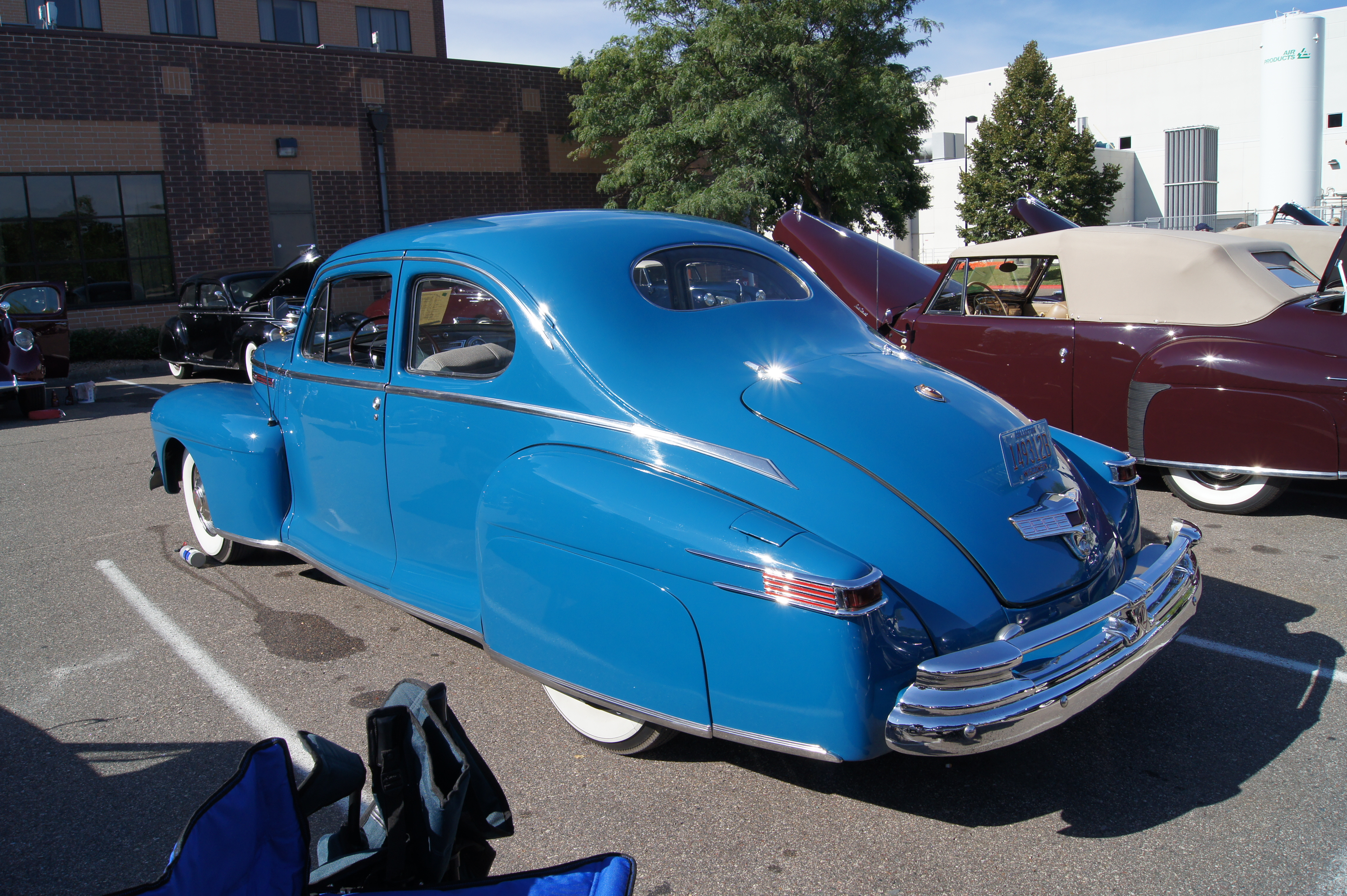 Lincoln & Continental Owners Club 2012 Mid-America National Meet August 15 - 19, 2012 Park Plaza Hotel, 4460 West 78th Street Circle Bloomington, Minnesota Hosted by the North Star Region